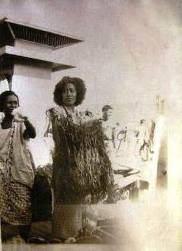 Native Hawaiian women selling heirs in Honolulu Harbor in 1920